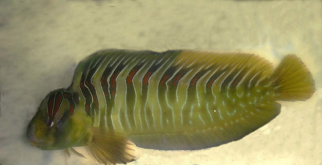 Salaria basilisca photographed in a laboratory. Individual collected in the Sante Gilla brackish lagoon (Sardinia, Italy). Photo by Alberto Piras.